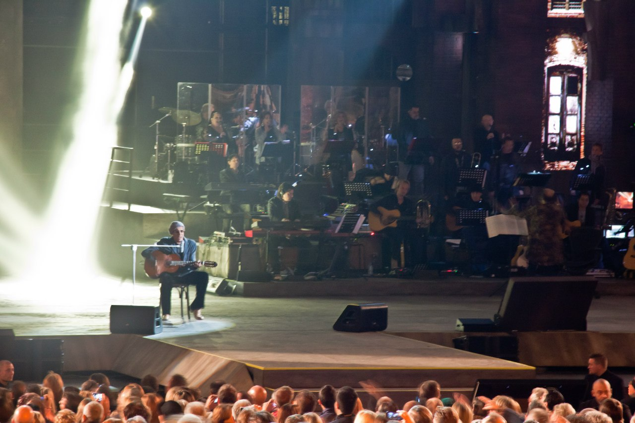 Adriano Celentano. Live in Verona.